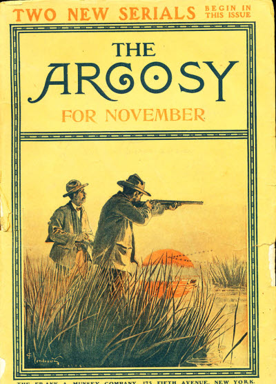 The Argosy, November 1906